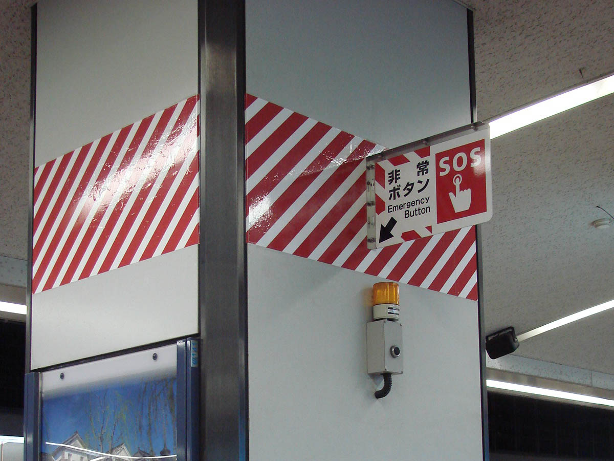 Emergency button sign on a JR West train station platform